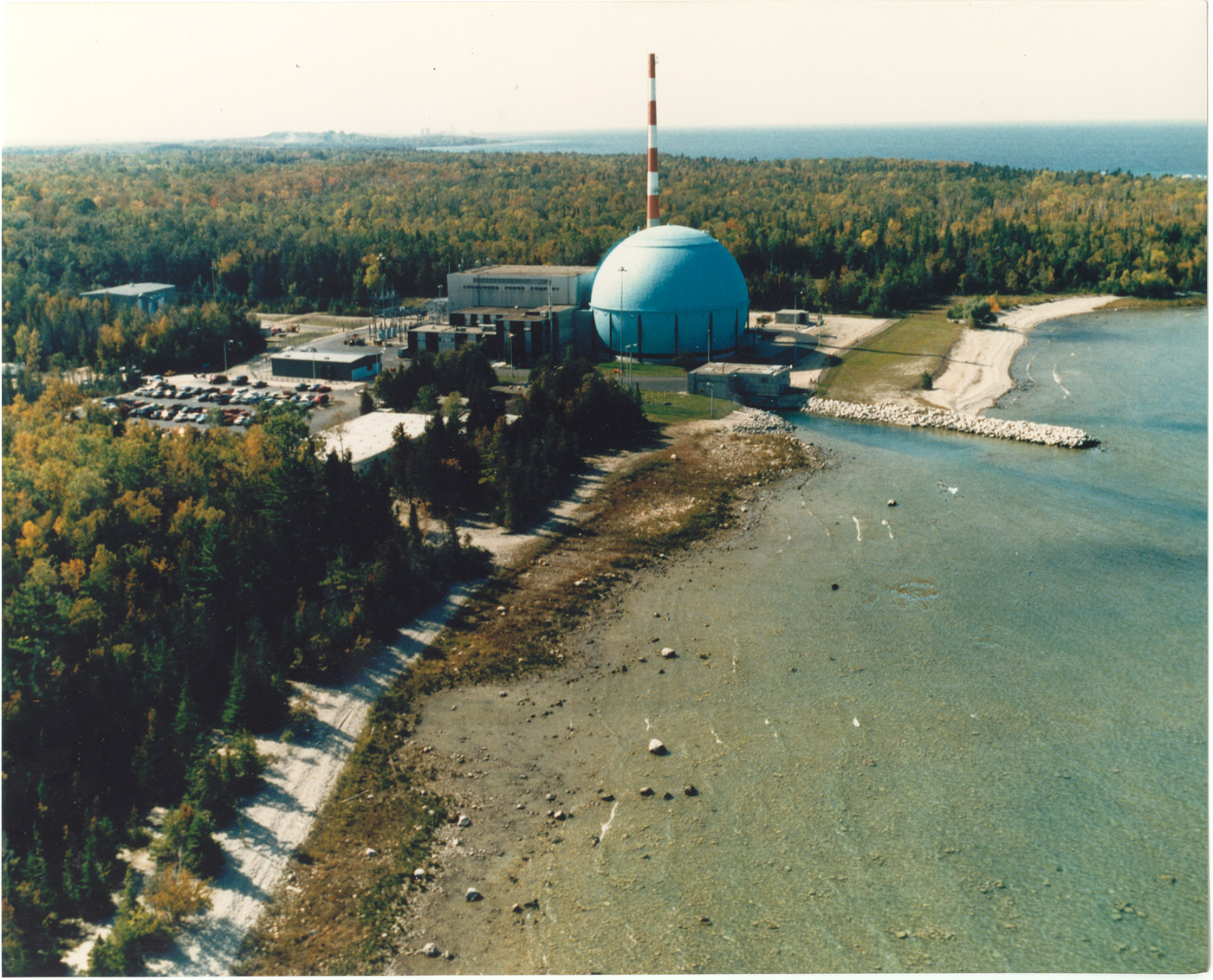 Big Rock Point Nuclear Power Plant. Aerial View.